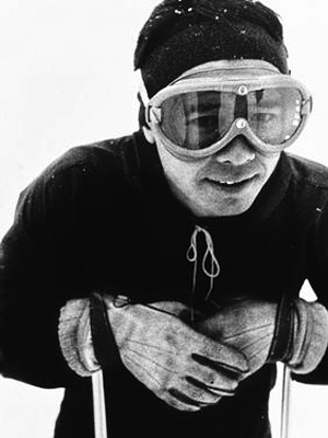 Chiharu Igaya (1931–)